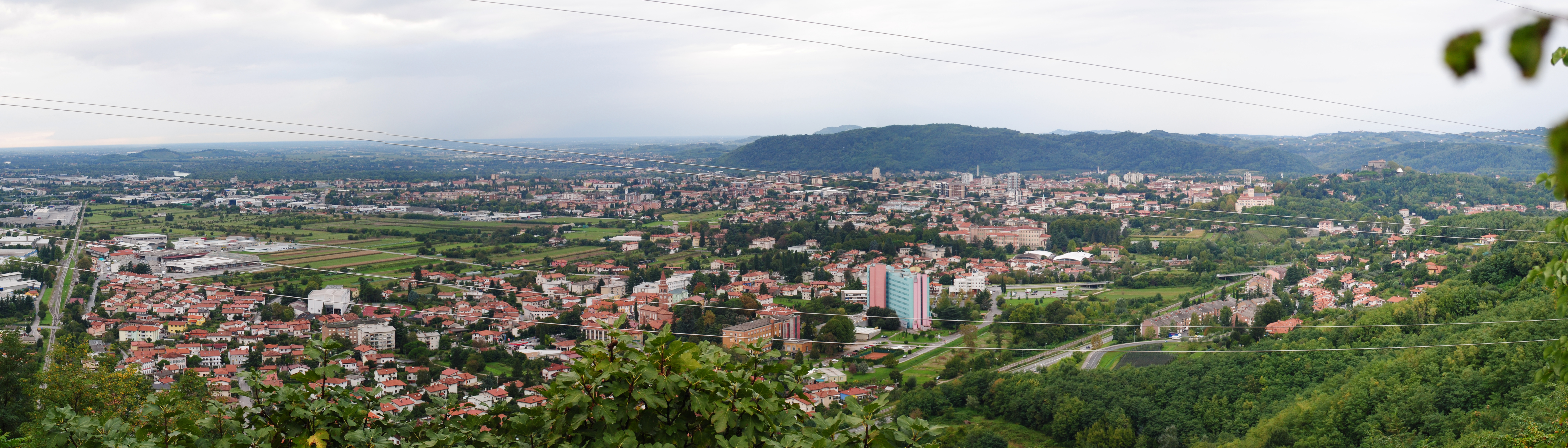 landscape of Gorizia (5), Italy